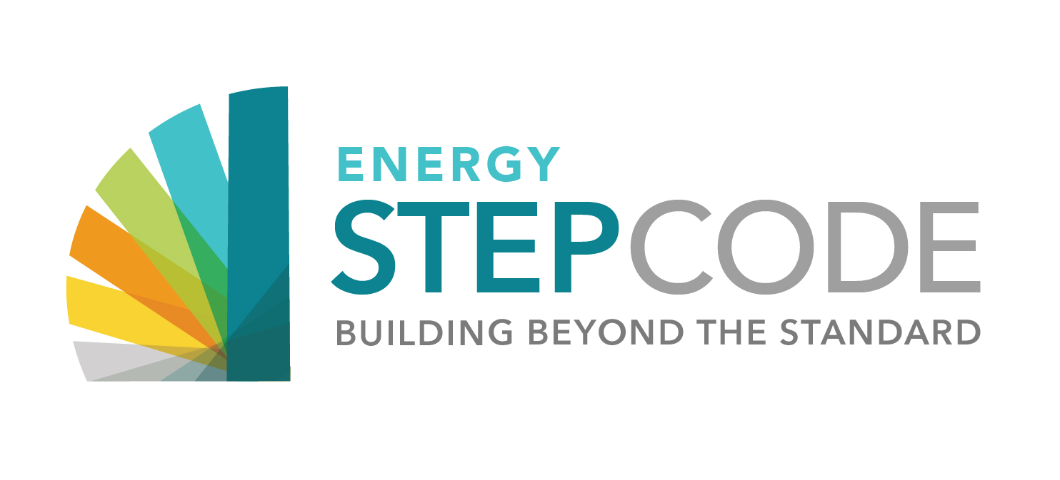 Logo for the BC Energy Step Code, a building performance standard developed by the Energy Step Code Council, an unincorporated advisory body in British Columbia, Canada.